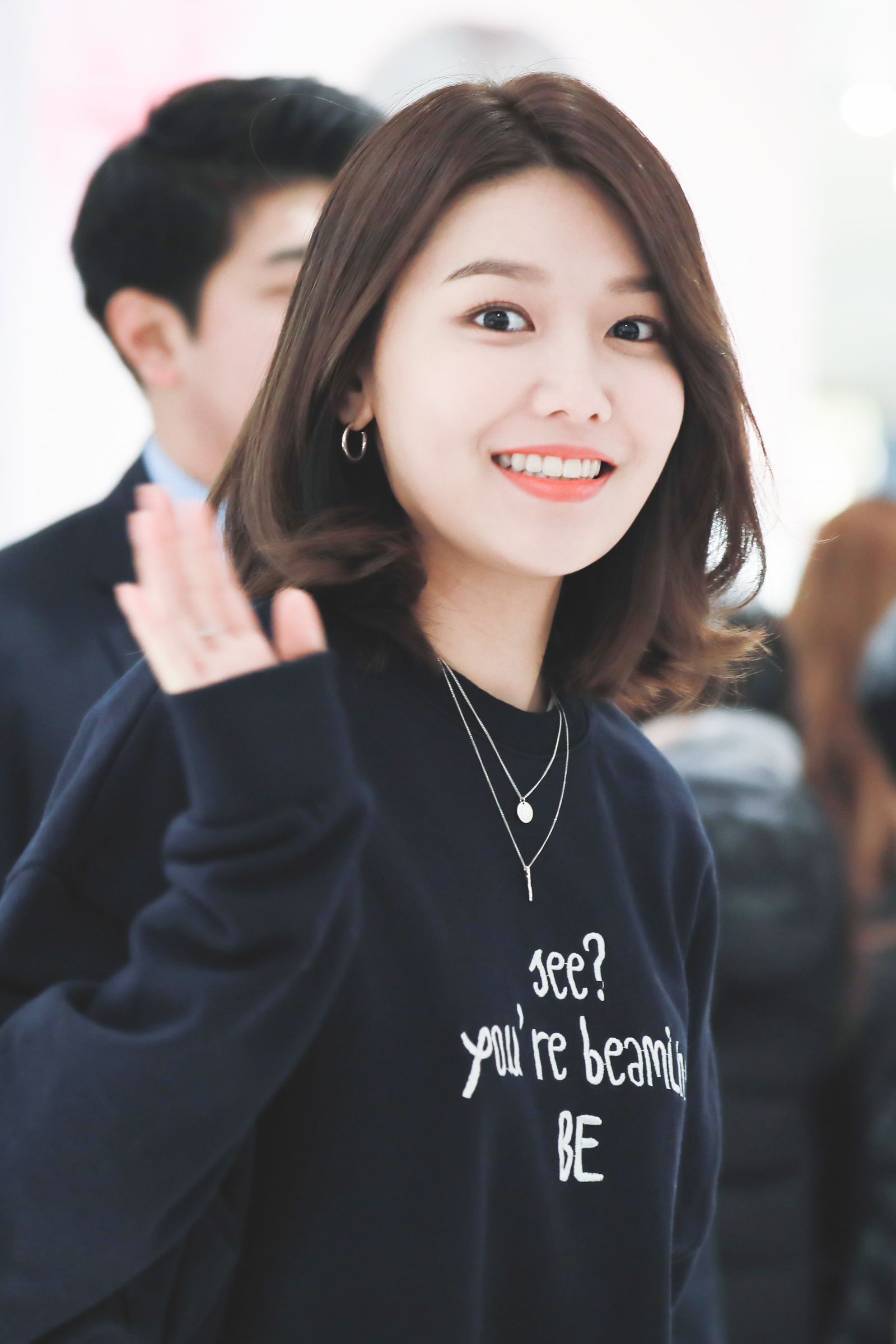 Choi Soo-young at AmieMarket on February 23, 2018.